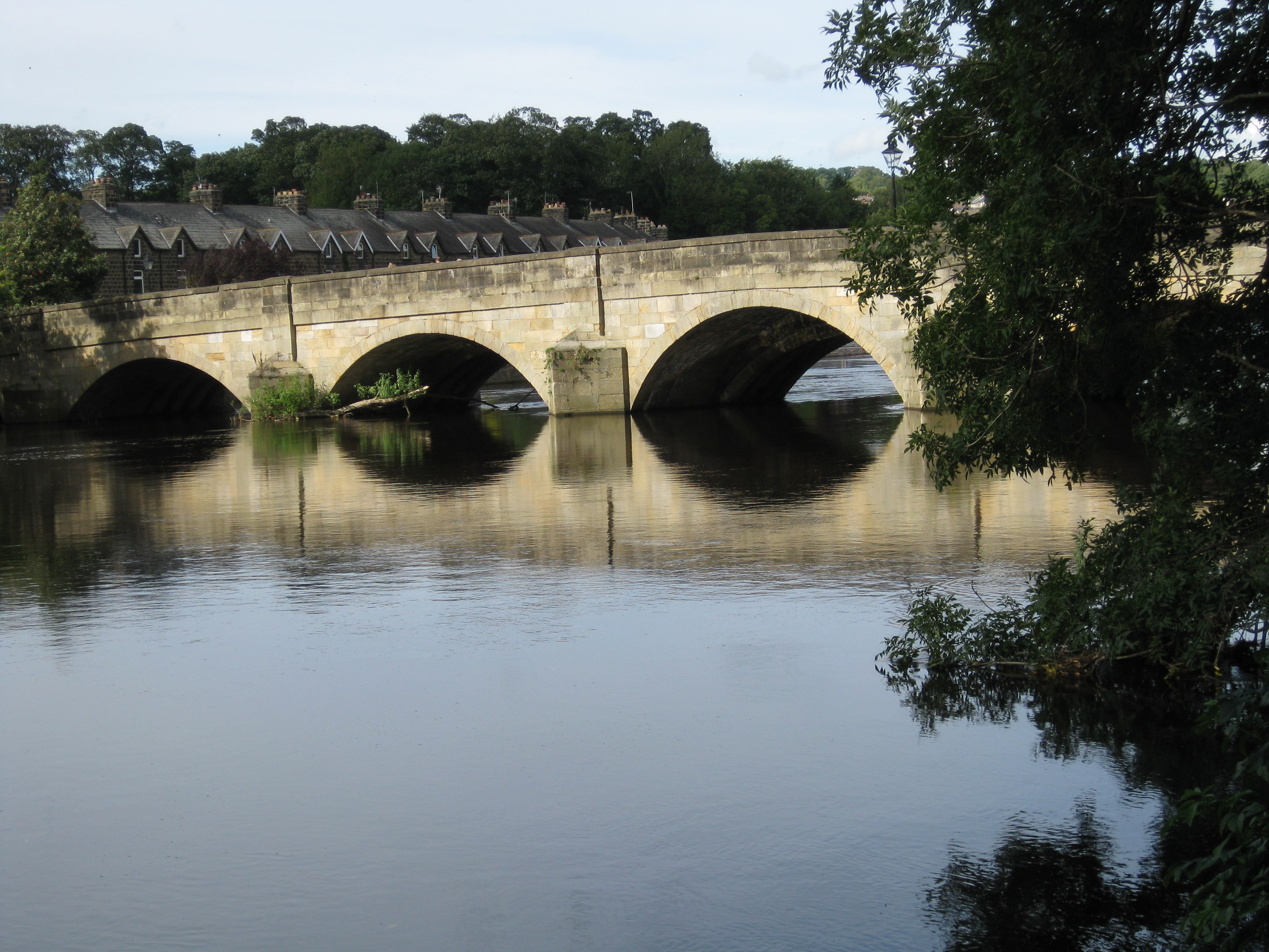 Otley Bridge viewed from Manor Garth Park.